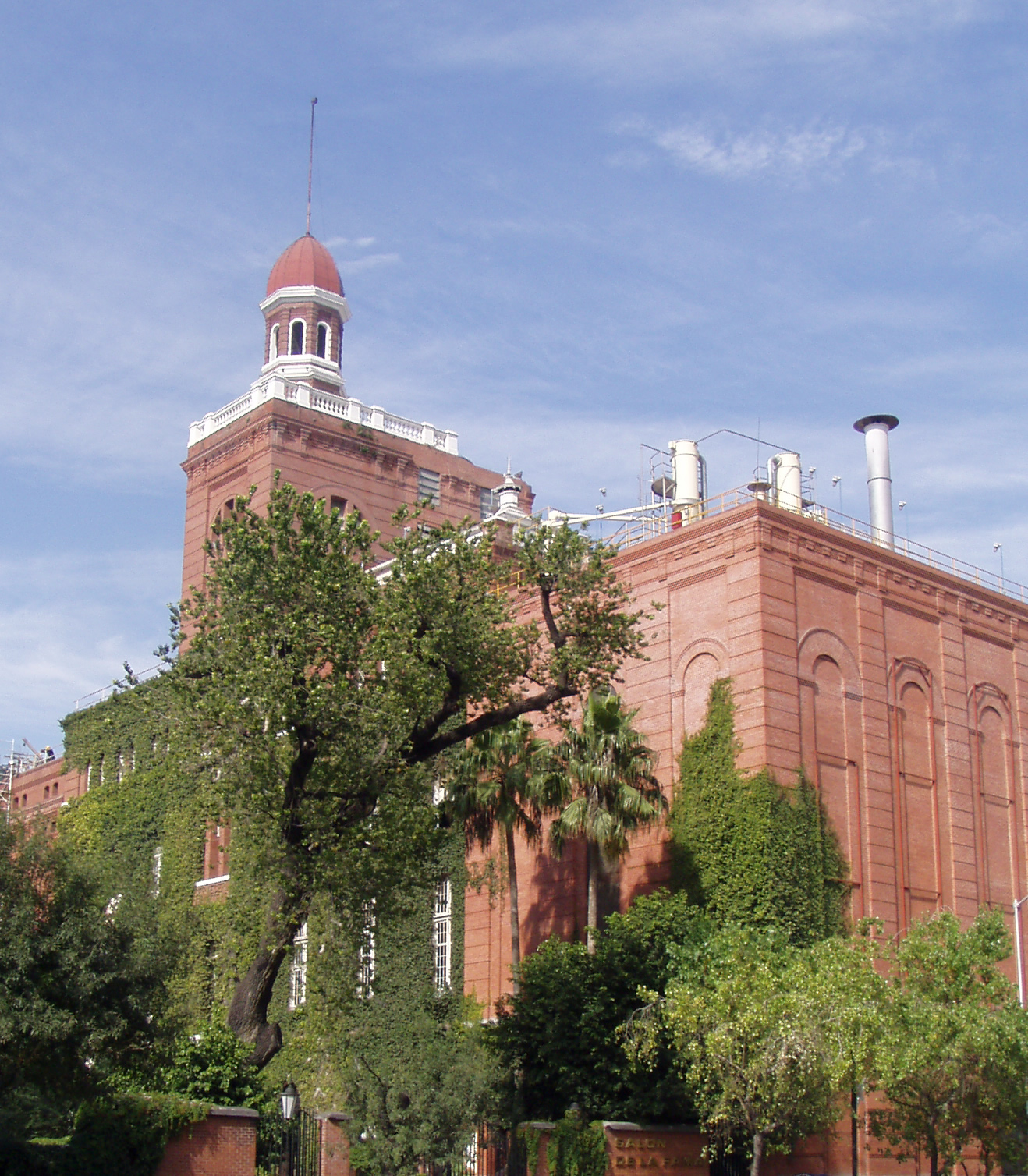 A photograph of La Cervecería Cuauhtémoc Moctezuma in Monterrey, Mexico.